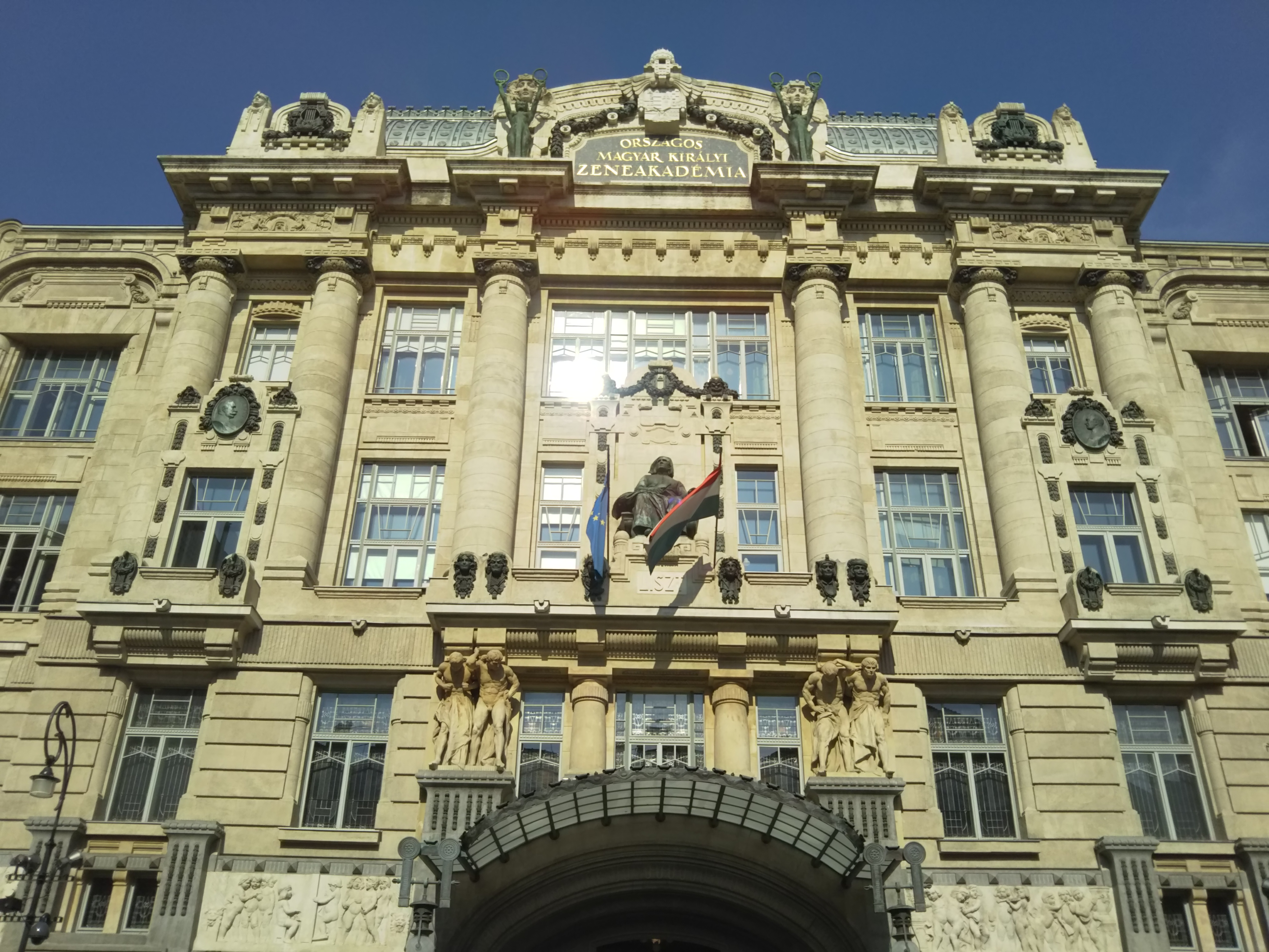 Liszt Ferenc Academy of Music, Budapest (New Main Building)